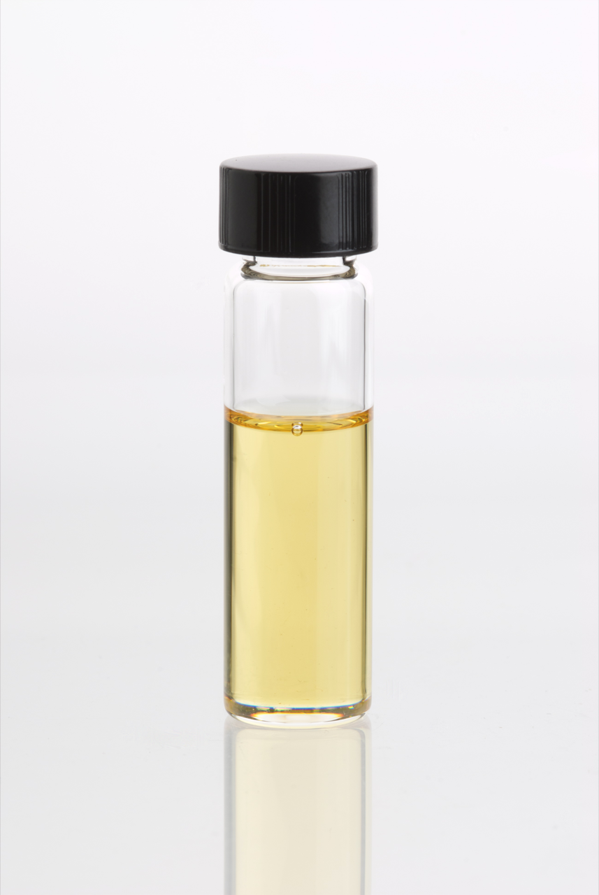 Glass vial containing Ginger Essential Oil